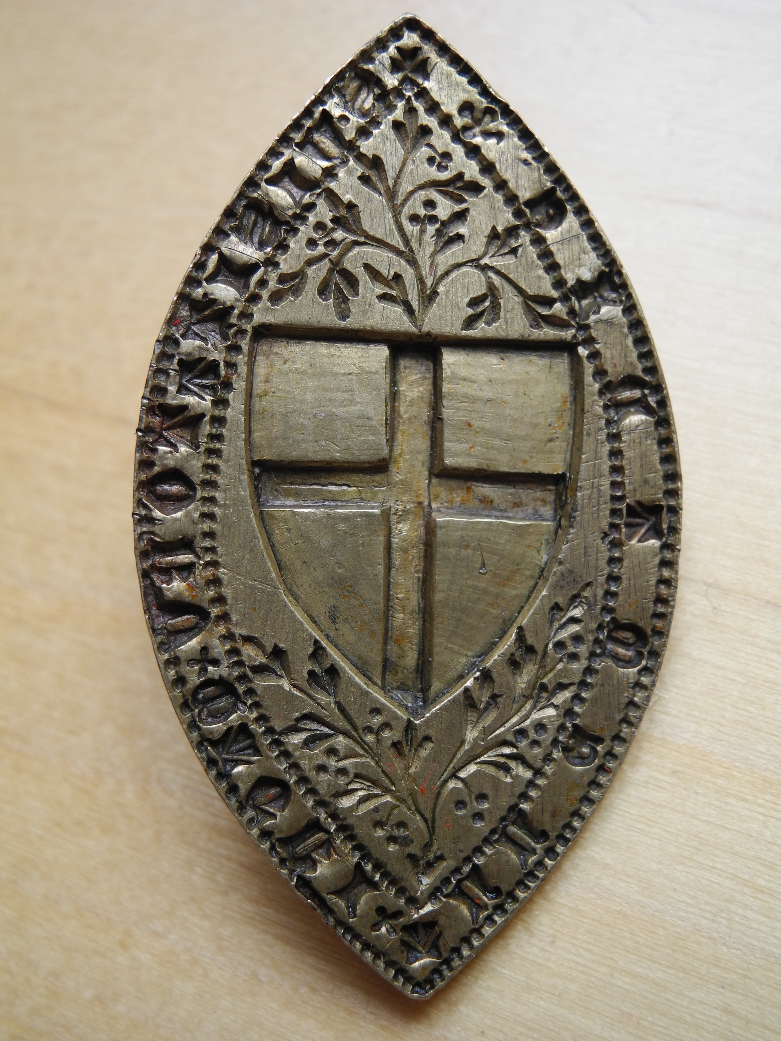 Stamp of the Teutonic Knights from the 14th century. The circumferential Latin inscription runs "+ S. VISITATORV + MAGRI + ALLEMANIE +" (in full: "Visitatorum Magister in Allemaniae"). Material: brass